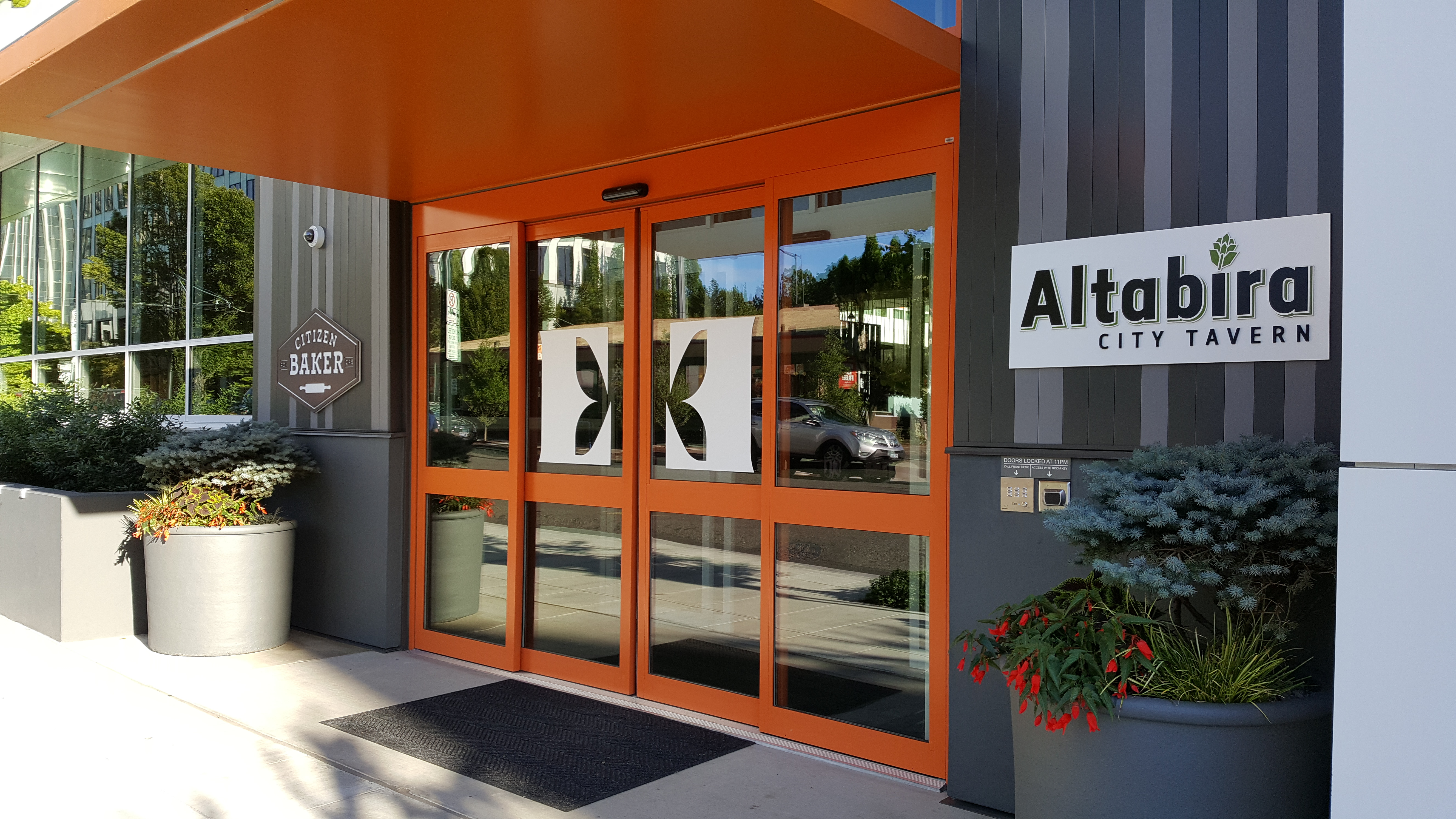 Hotel Eastlund entrance, Atabira restaurant signage, Portland, Oregon, 2016